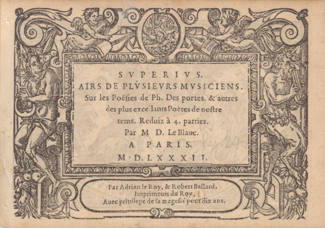 Title page of Didier Le Blanc's Airs (Paris : Le Roy & Ballard, 1582). Paris BNF.